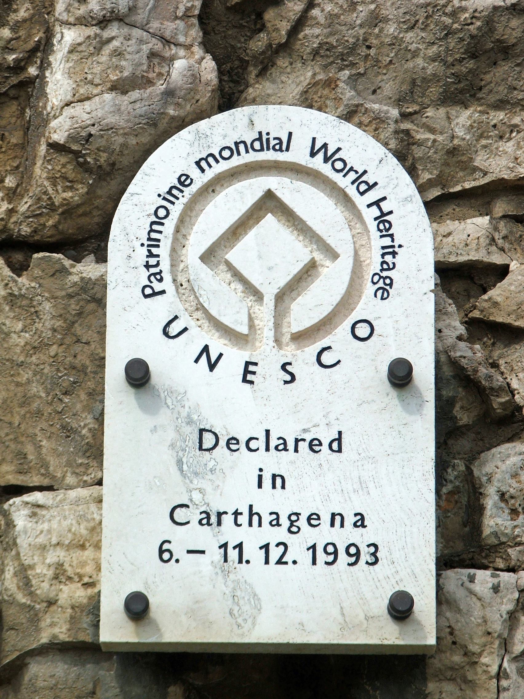 Spis Castle UNESCO memorial tablet